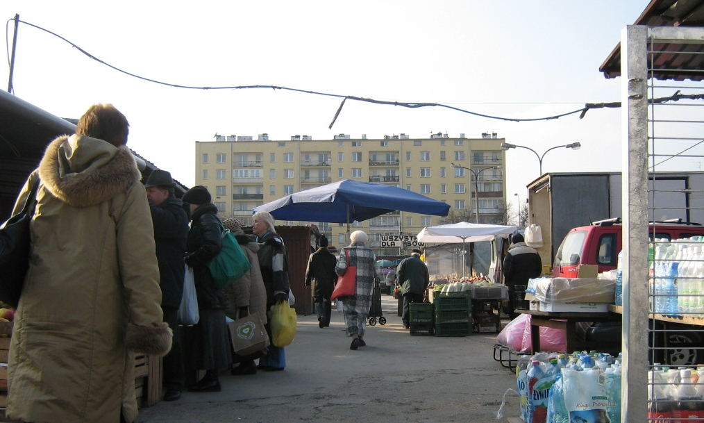 Banacha Market Place. Warsaw.